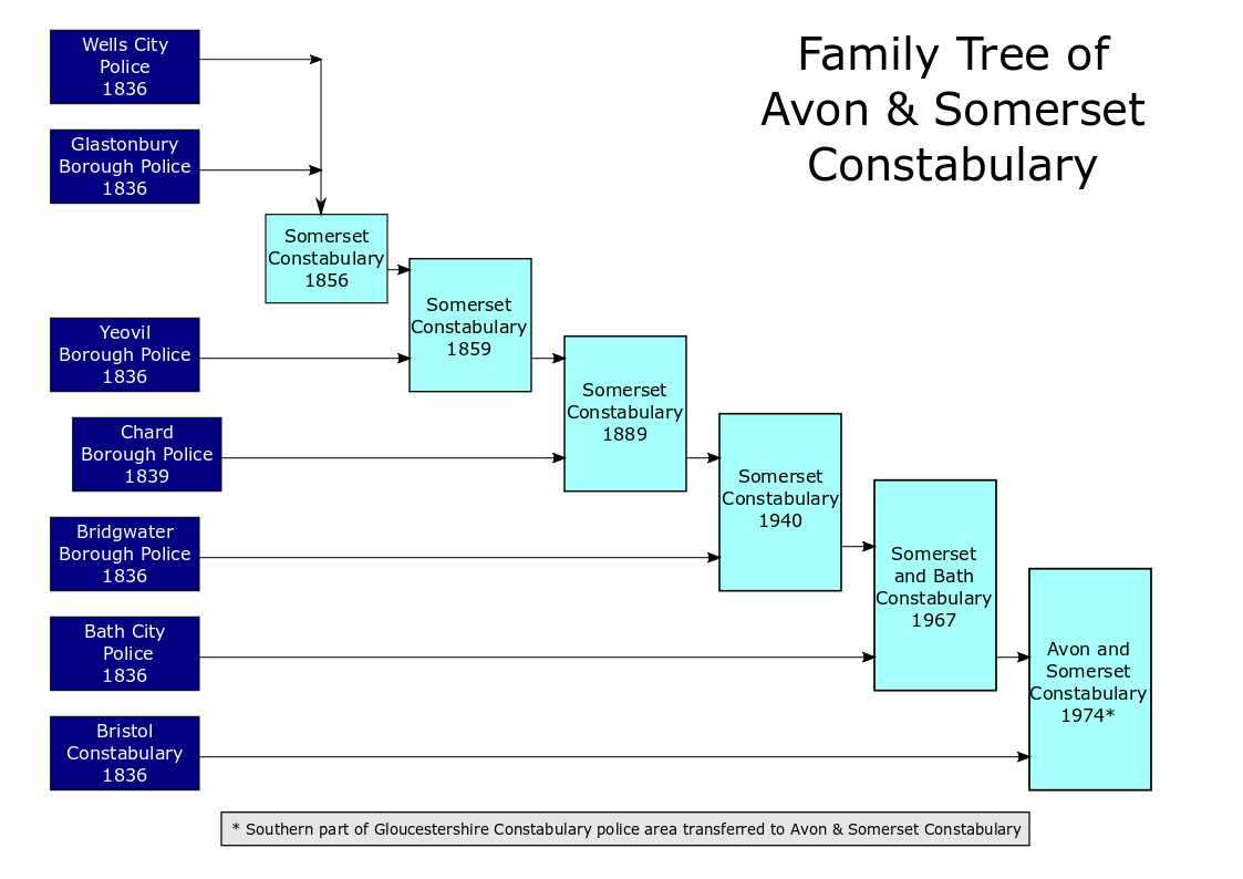 Chart outlining history of organisations that make up Avon & Somerset Constabulary since 1836.